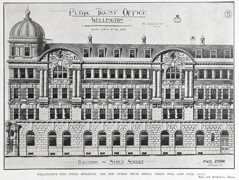 A diagram of the planned Public Trust Office building in Wellington. The caption reads: "WELLINGTON'S FINE PUBLIC BUILDINGS: THE NEW PUBLIC TRUST OFFICE, WHICH WILL COST OVER £40,000."